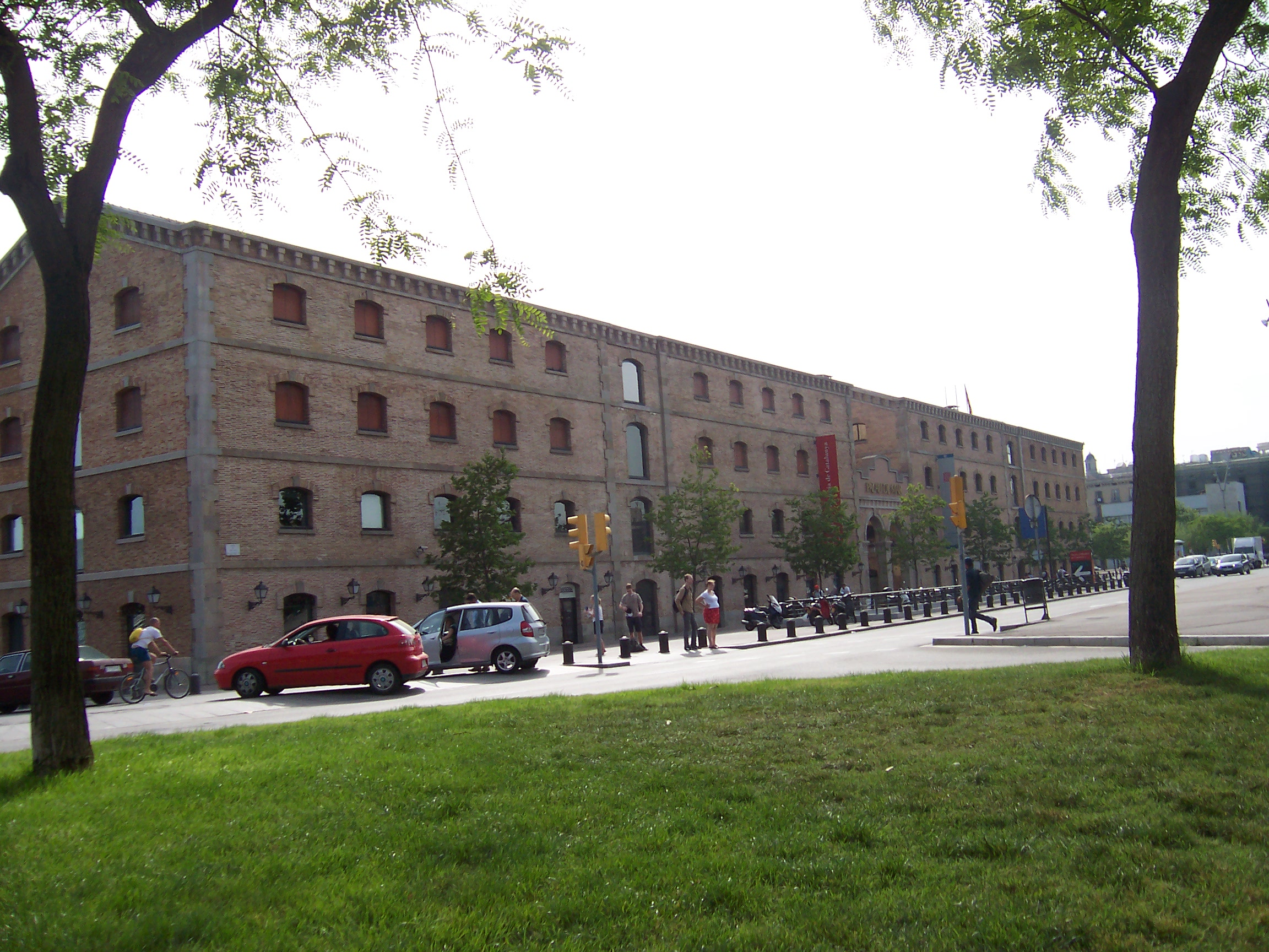 Catalunya History Museum, to the Palau de Mar, in Port Vell, Barcelona.